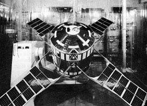 Gamma-ray burst detectors have been carried by elements of the Franco- Soviet SIGNE program. SIGNE 1 was a package of experiments flown on the Prognoz 2 satellite; SIGNE 2 was aboard the Prognoz 6. SIGNE 3 was a small French-built satellite (also known as Gamma D2B and Sneg-3) which was originally intended to be launched by the French Diamant rocket, but was actually launched by the Soviets when the Diamant program terminated. Other SIGNE packages were carried aboard Prognoz 7, Prognoz 9, Venera 11, and Venera 12.